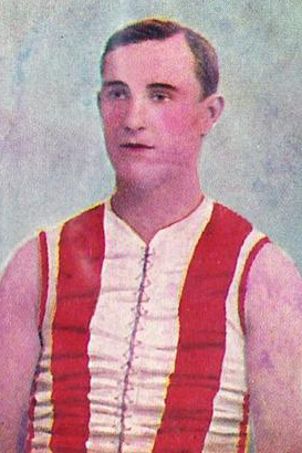 Cigarette card of Tom Fogarty from the 1905 Wills Past and Present Champions series.